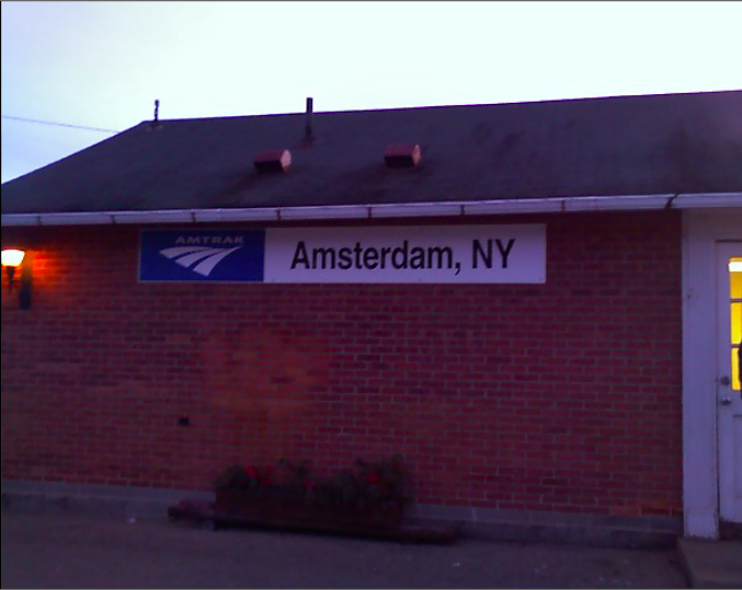 This is Amsterdam, New York Amtrak train station.